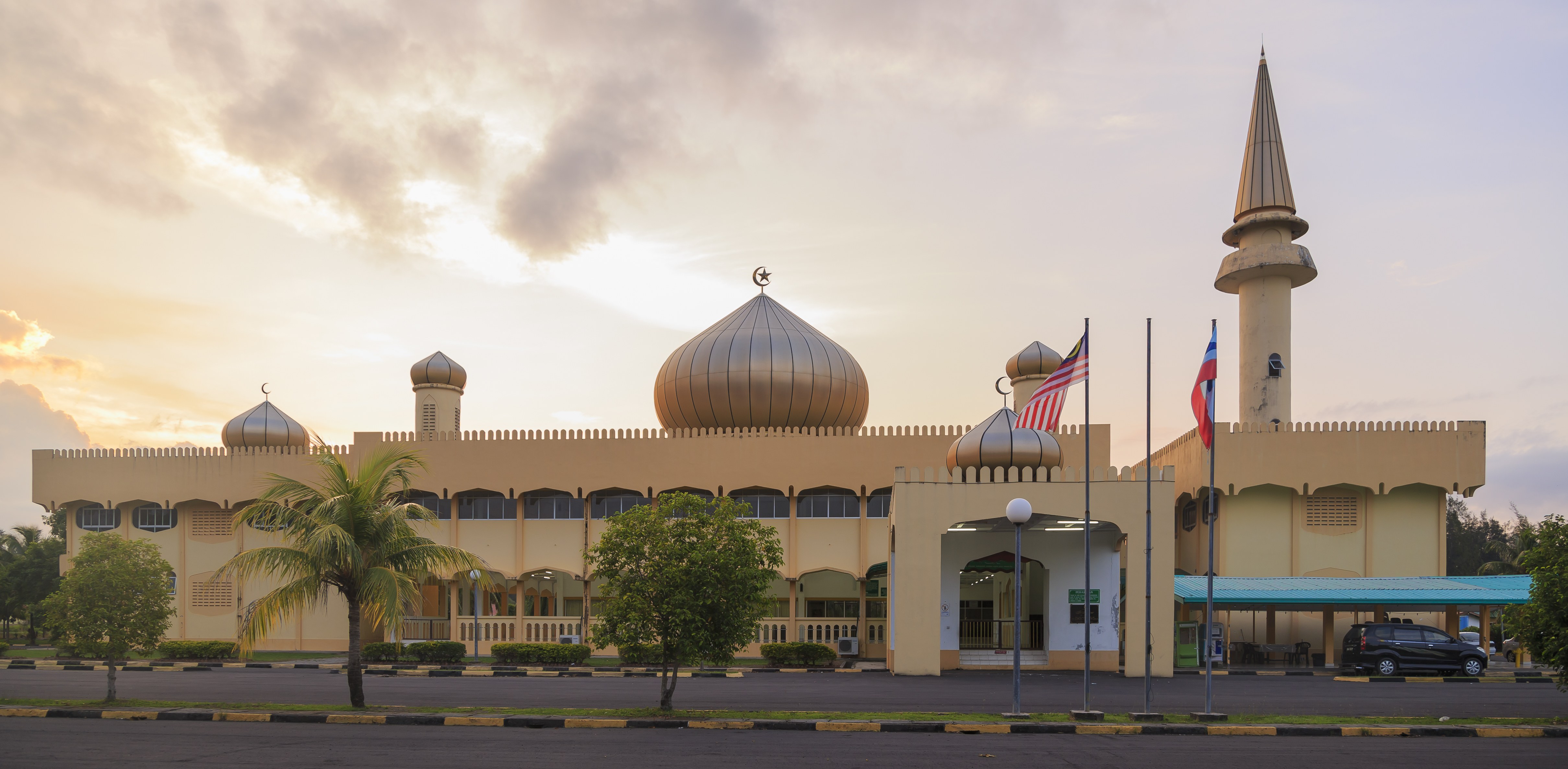 Kudat, Sabah: Asy-Syakirin Mosque, illuminated by the last light of the bornean sunset.